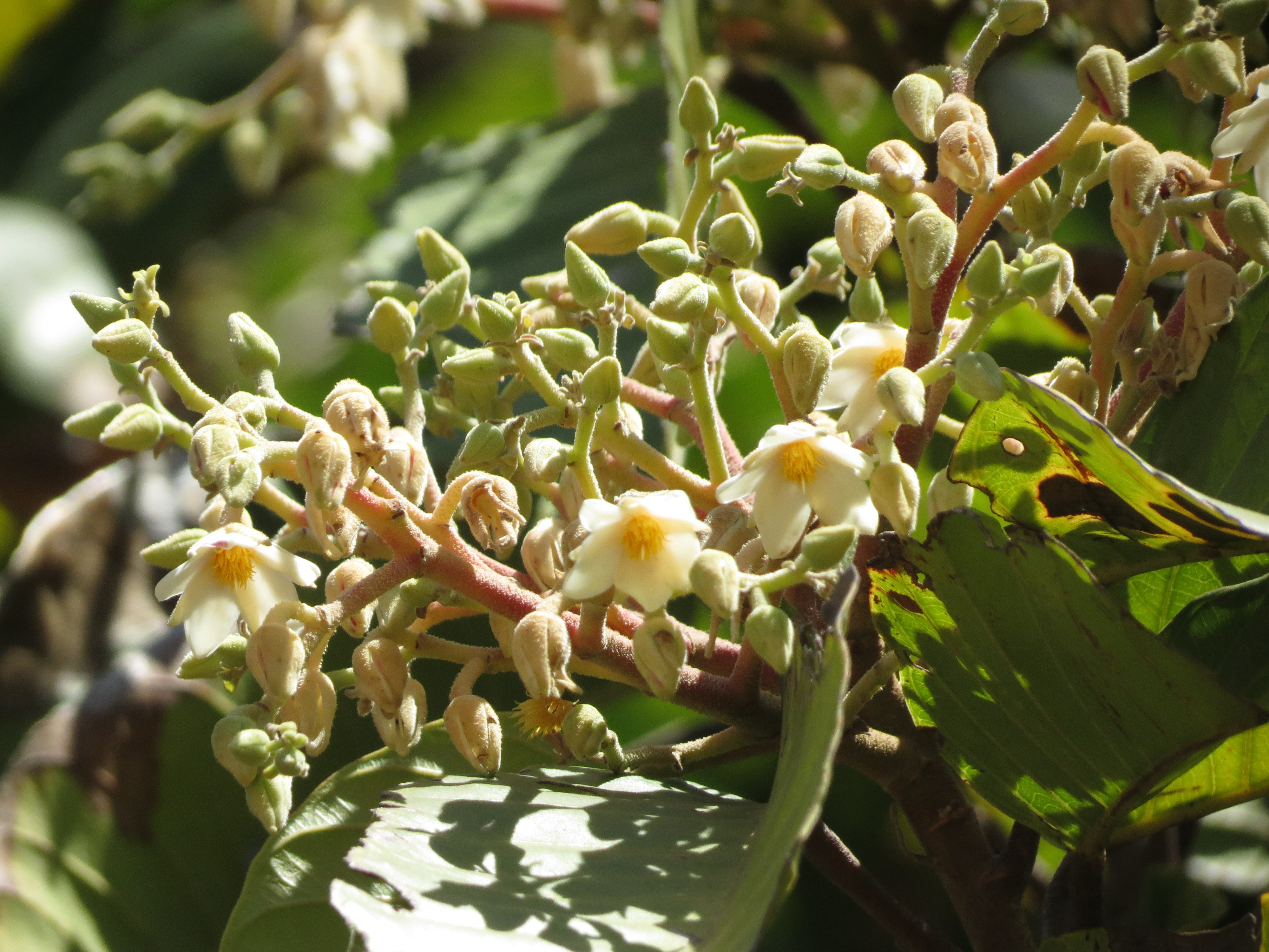 Vateria indica from the Dipterocarpacea family seen in Shivanahalli Bangalore. Critically endangered tree as per IUCN